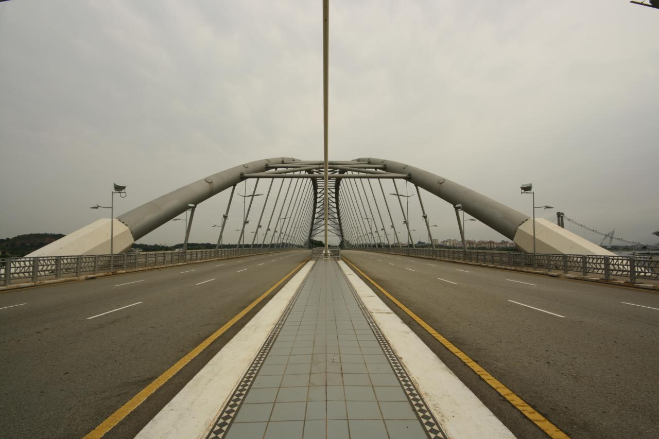 The Seri Saujana Bridge is a combination of arch and cable-stayed technique This was taken using Canon EOS 1000D